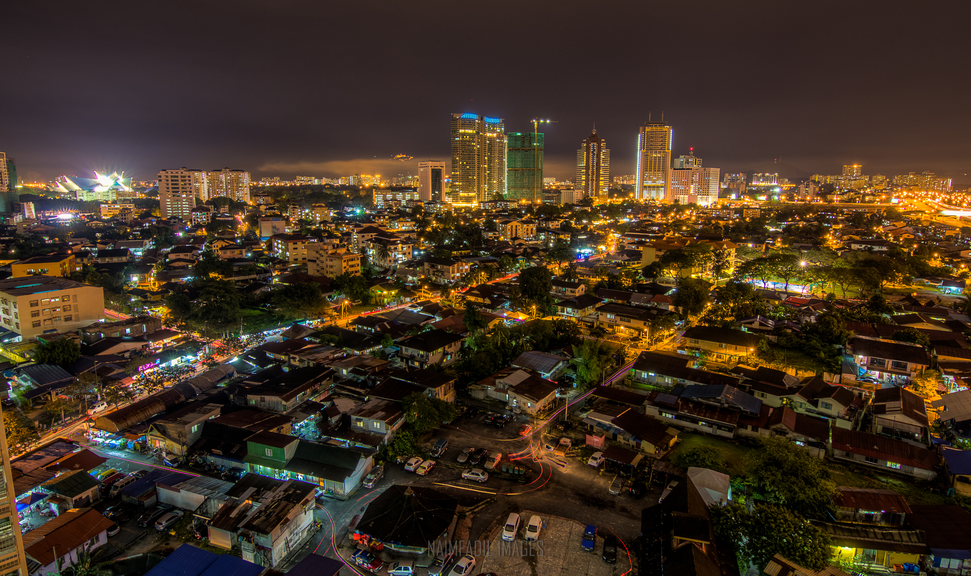 Kuala Lumpur, Kampung Baru at Night